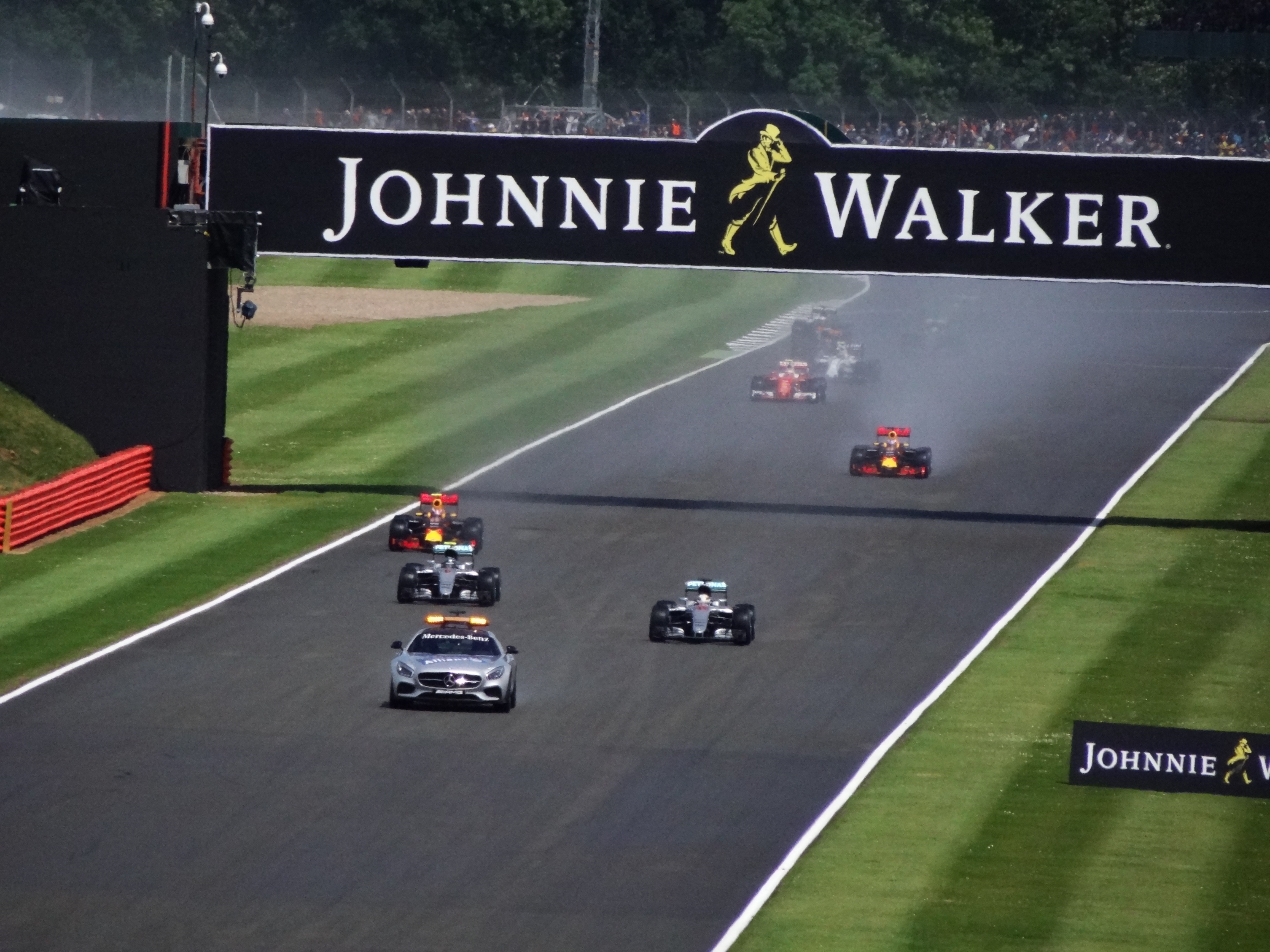 First lap of the 2016 British GP, with the safety-car